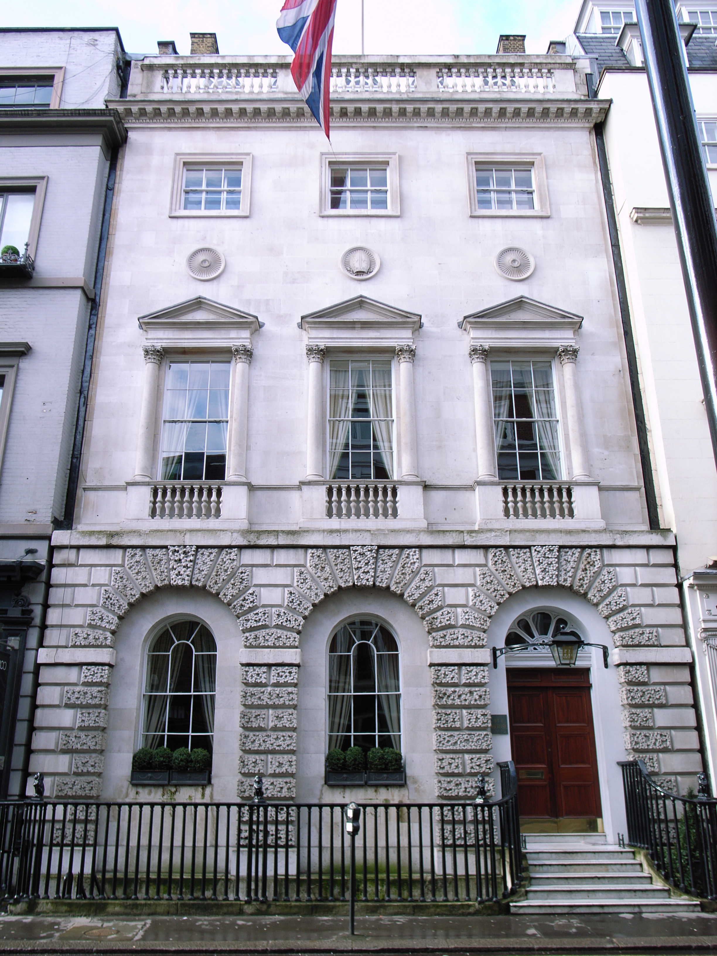 37 Dover Street, just North of Piccadilly (1772), by Robert Taylor - the house was built for the Bishop of Ely, and the decorative Medallion in the middle shows a bishop's hat37 Dover Street